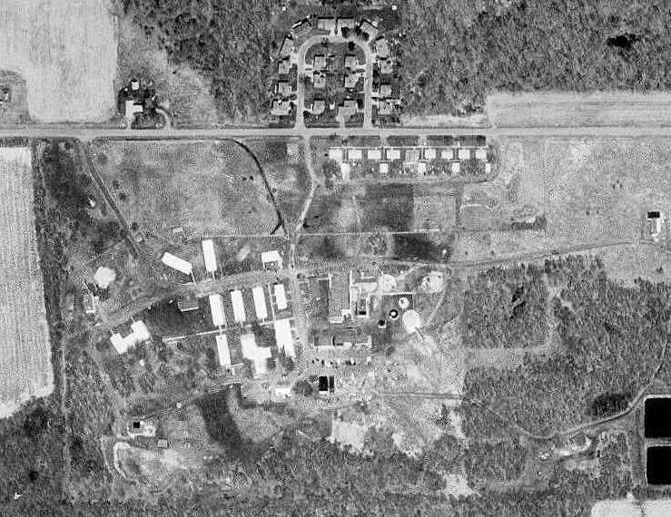 USGS orthophoto of Osceola Air Force Station, Wisconsin